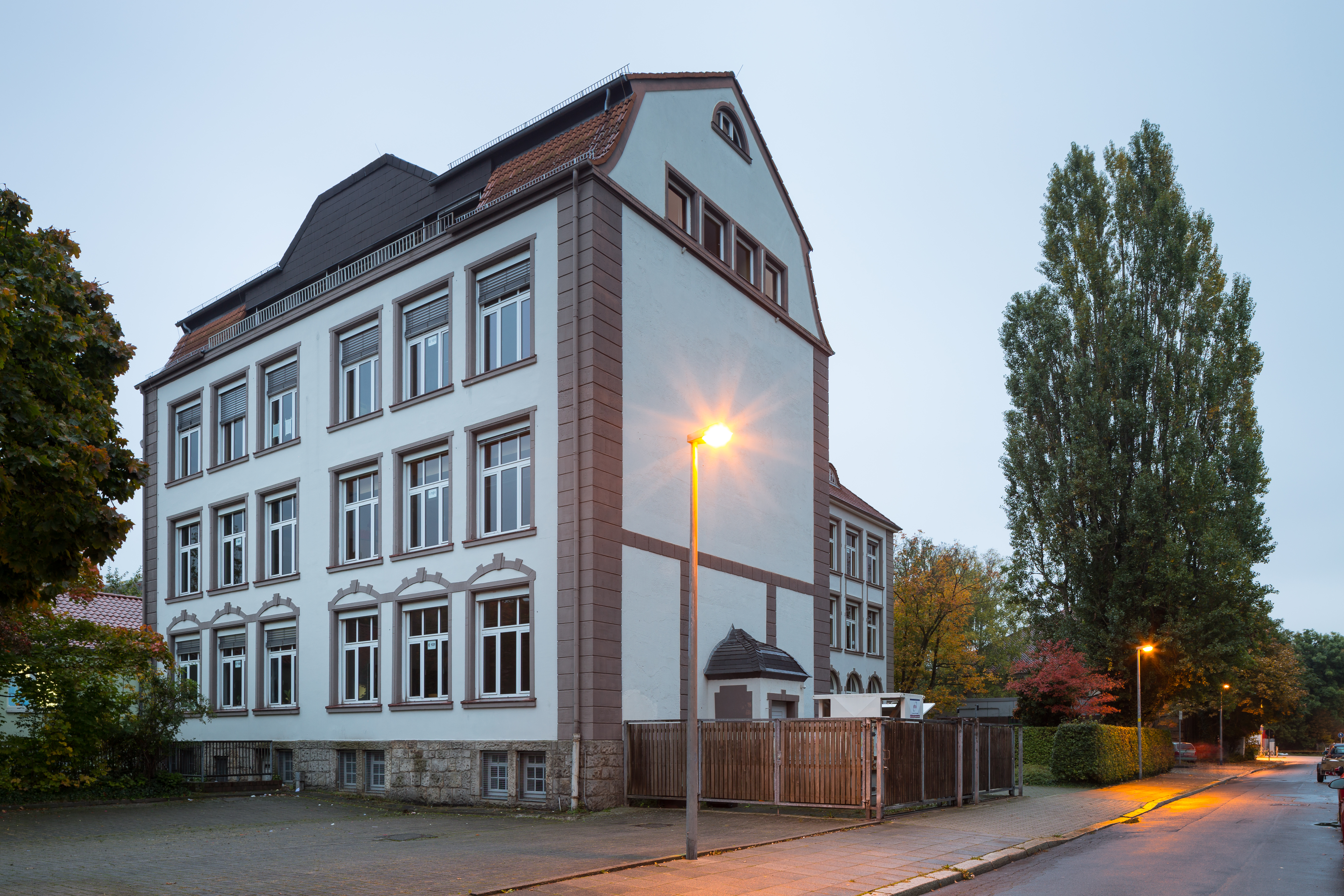 Comprehensive school IGS Badenstedt located at Diesterwegstrasse in Badenstedt quarter of Hannover, Germany.